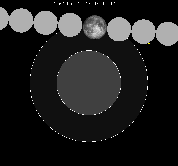 February 1962 lunar eclipse chart of moon's path through the earth's shadow. thumb